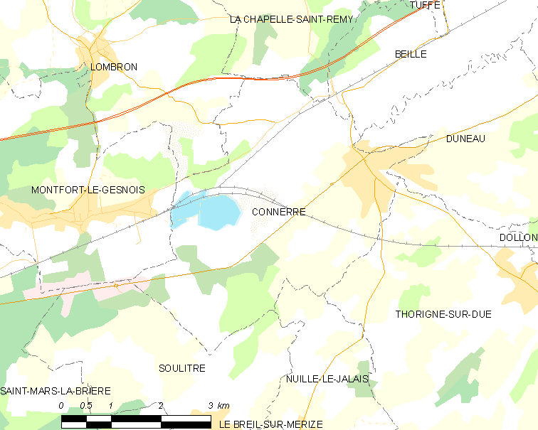 Map of French municipality